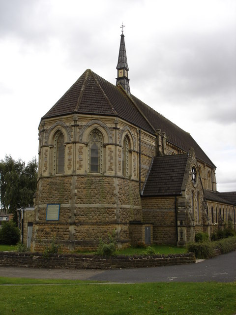 St Johns, Bulwell